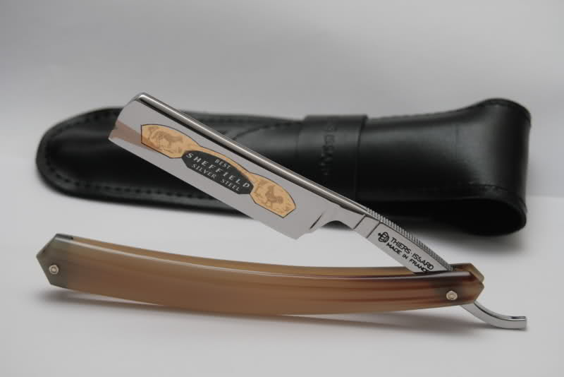 French razor with horn scales.